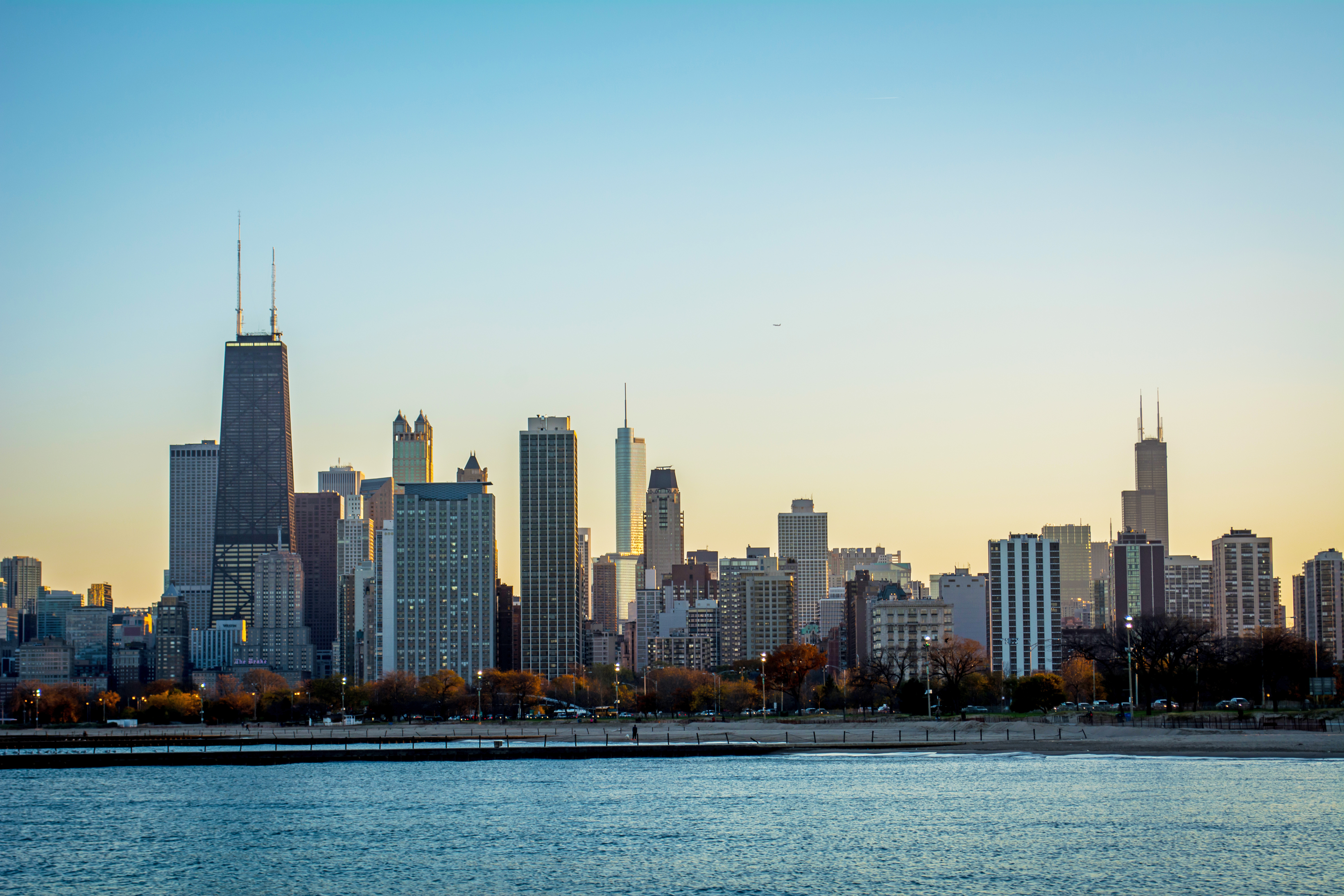 Chicago